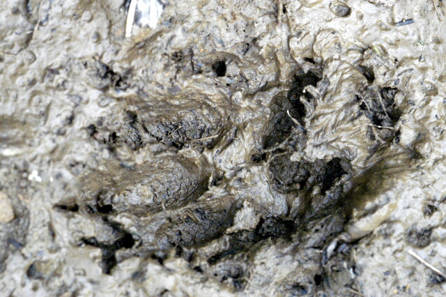 Martes martes tracks, from Commanster, Belgian High Ardennes (50°15'20N,5°59'58E)